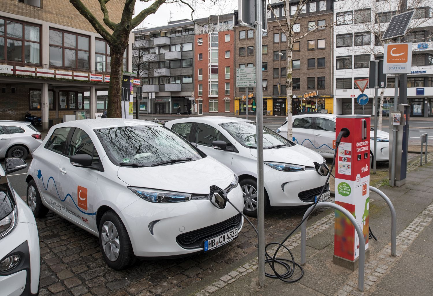 The Renault Renault ZOE runs at Cambio in Aachen, Bielefeld, Bremen, Hamburg, Lüneburg, Köln und Saarbrücken.